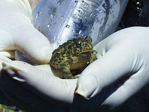 The Wyoming Toad is an extremely rare endangered species found only in captivity and within Mortenson Lake National Wildlife Refuge, in Wyoming, U.S.